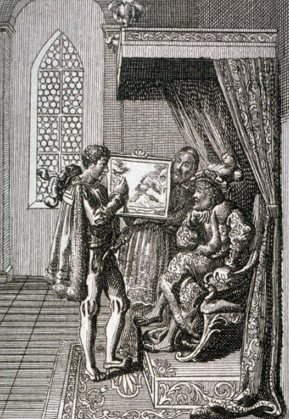 Christopher Columbus offers his services to the King of Portugal, John II.